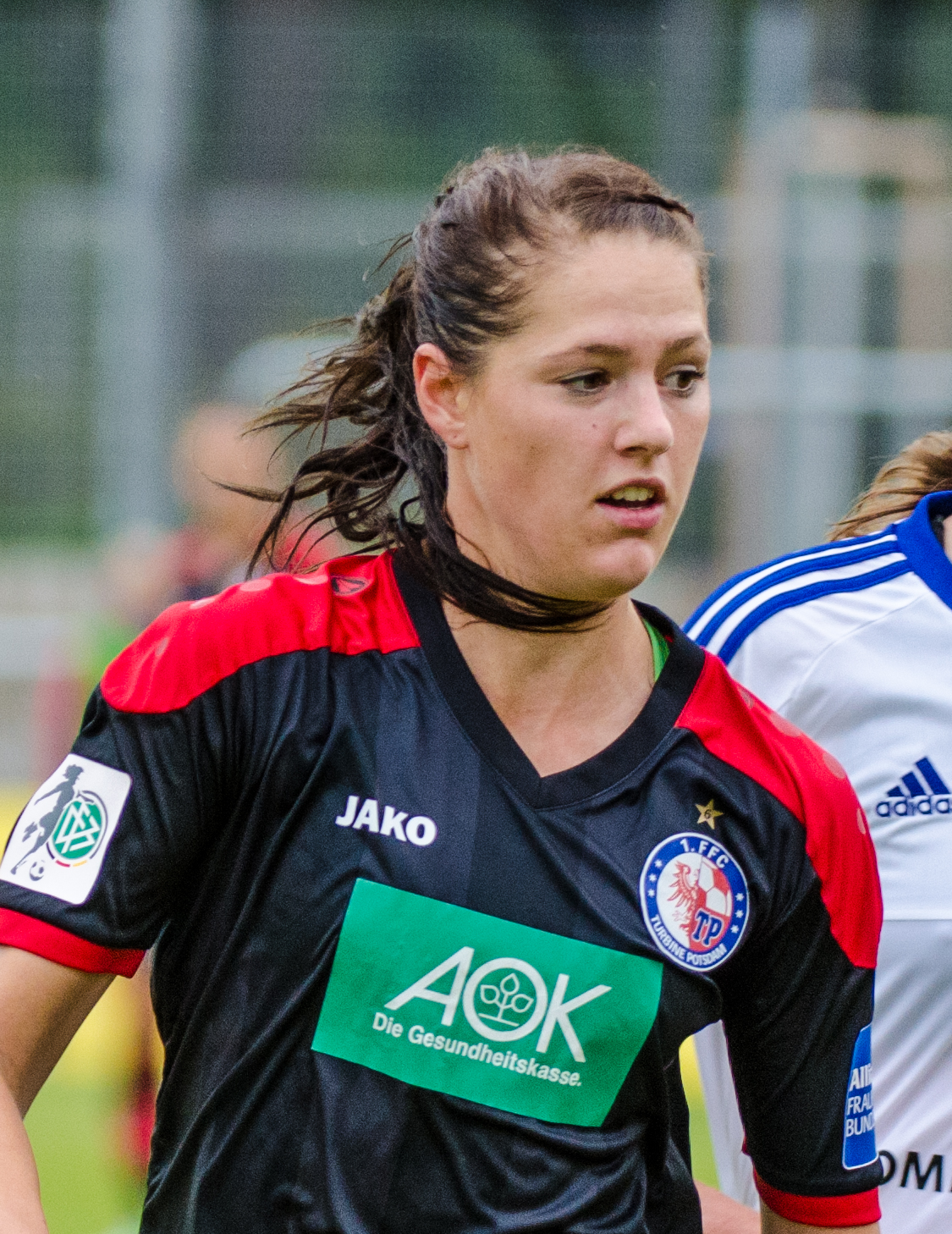 Match of the German Women's Football Bundesliga between 1.FFC Frankfurt and 1. FFC Turbine Potsdam, 2015-09-13